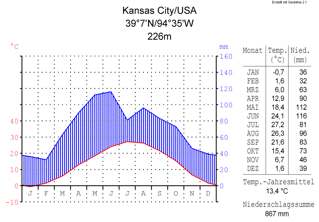 climate chart in the format by Walther and Lieth, metric, °Celsisus and millimeters, made with Geoklima 2.1